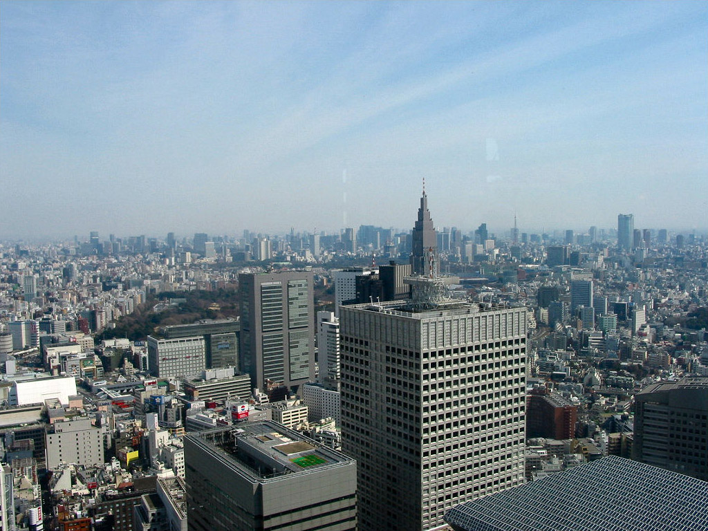 Tokyo skyline, taken from Metropolitan Government building by Ningyou.